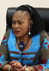 Kinshasa, DR Congo: Mrs. Faith Pansy Tlakula, Chairperson of the African Commission for Human and People’s Rights and Special Rapporteur on Freedom of Expression and Access to Information in Africa, exchanging on 2 October 2017 during her official visit to the DRC with the Minister of Human rights, Mrs. Marie-Ange Mushobekwa on possible Government support to ensure the adoption and implementation of an "Access to information Law" that is compliant with international norms and standards. Mrs. Tlakula was jointly invited by the National Human Rights Commission and the United Nations Joint Human Rights Office (UNJHRO) to lend her support to the DRC for the adoption of the Access to information Bill already passed by the Senate since October 2015 and currently tabled before the National Assembly.